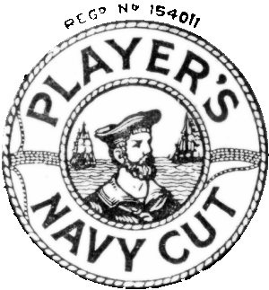 Player's Navy Cut logo - Project Gutenberg etext 18333